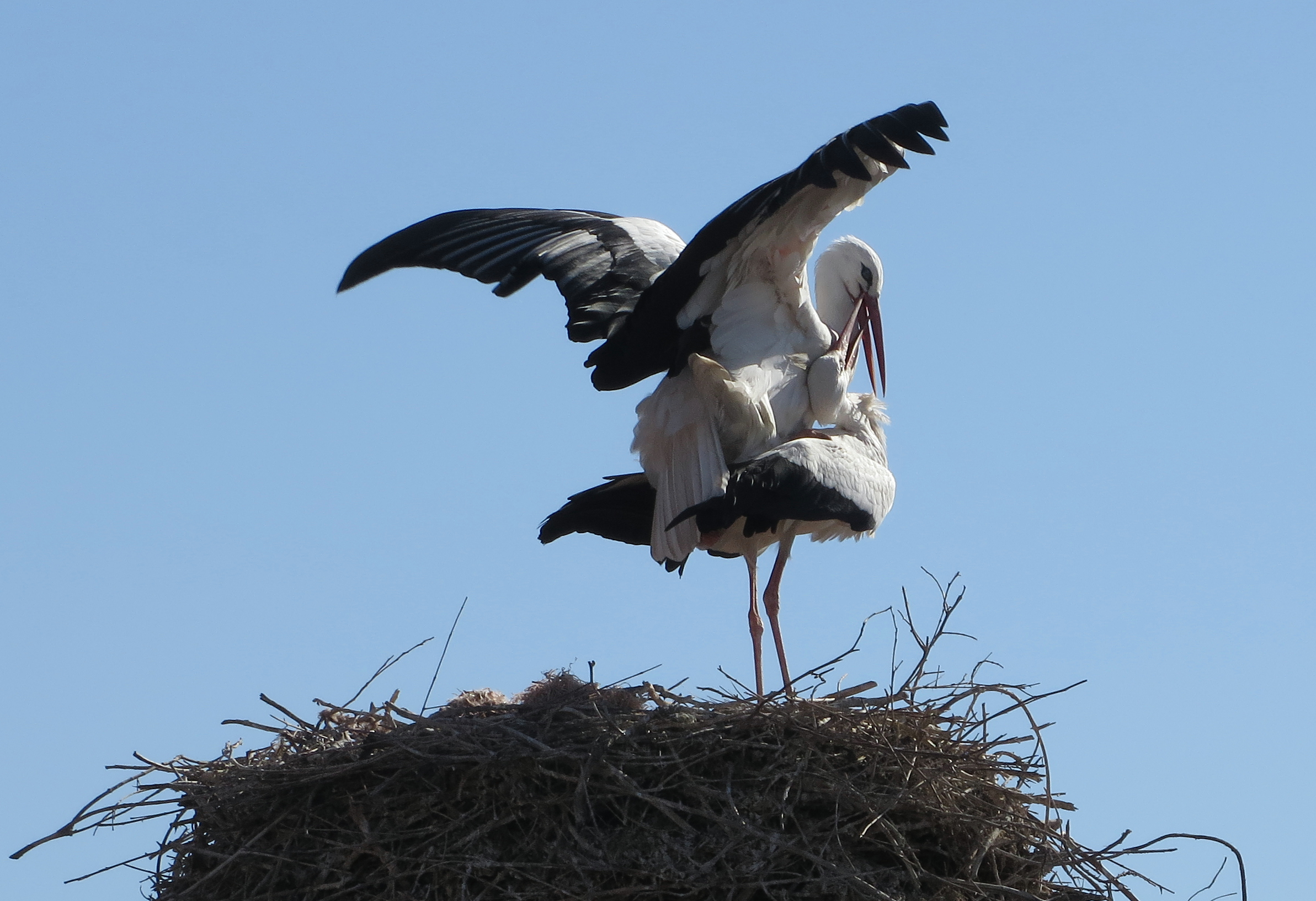 White Stork, Marrakesh